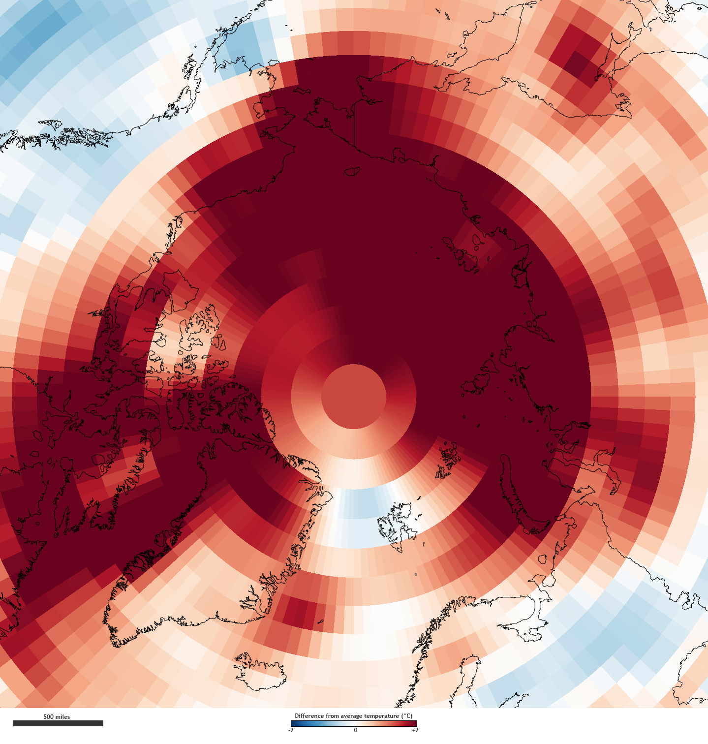 The image shows where average air temperatures (October 2010-September 2011) were between 2 degrees Celsius above (red) or below (blue) the long-term average (1981-2010). The map is based on a NCEP/NCAR reanalysis of near-surface air temperature anomalies provided by NOAA’s Earth System Research Laboratory’s Physical Sciences Division.